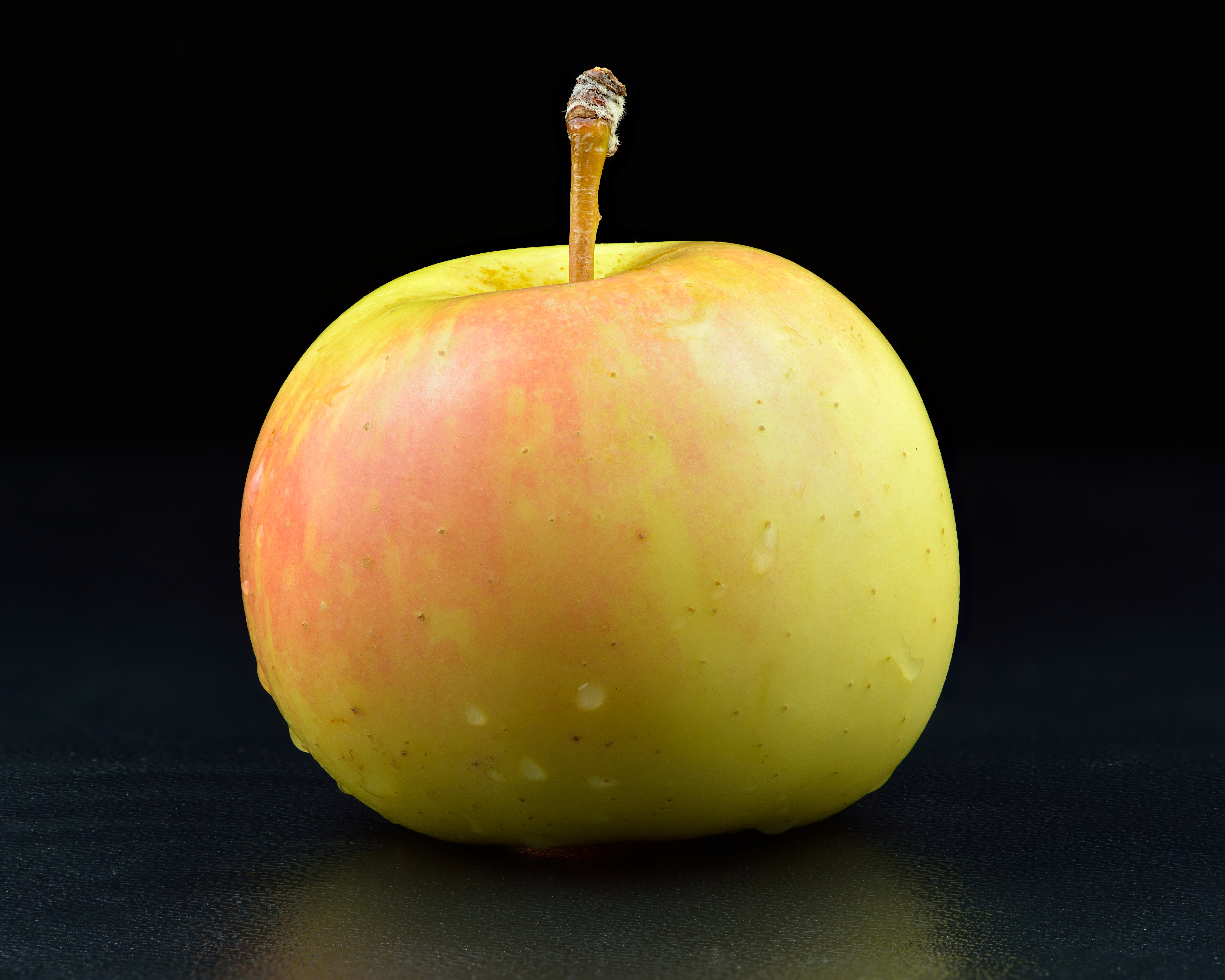 Estonian apple cultivar 'Tellissaare', developed in 1920s.